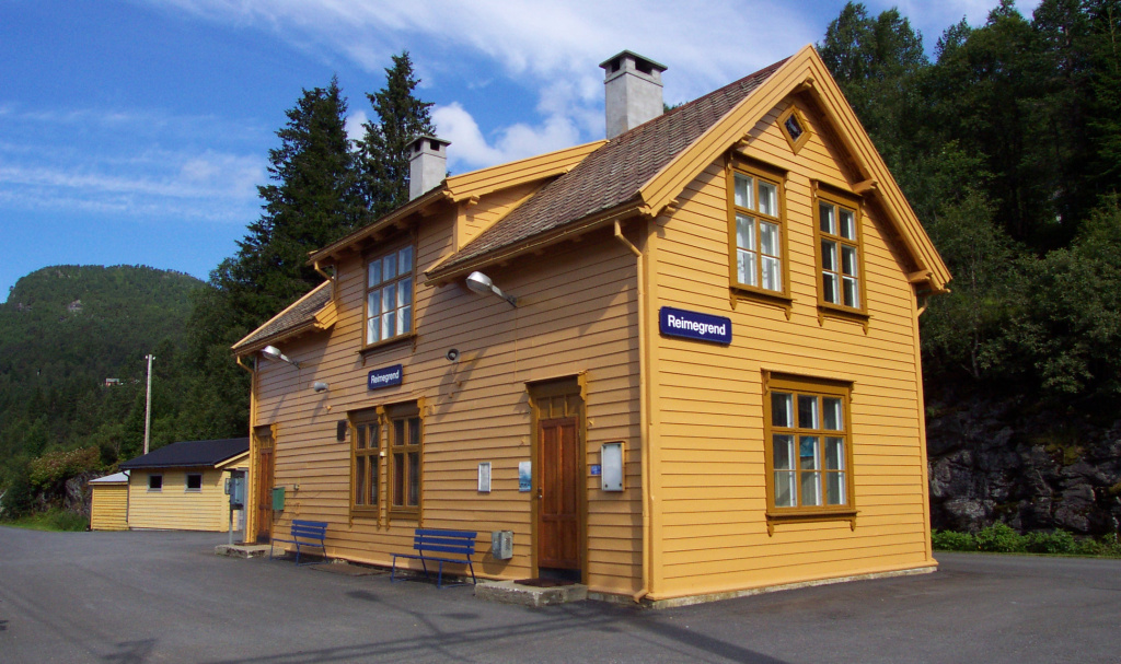 This is the old Reimegrend railway station (1908) on the Bergen line (Bergensbane), a few stops west of Voss. The station is unmanned and no tickets are sold here (not even from ticket vending machines). As cars became more popular in Norway, local train traffic dwindled, making these small stations unprofitable. Many have been sold or leased by the Norwegian Railway Company to townspeople seeking vacation homes in the countryside with comparatively easy access in the winter.